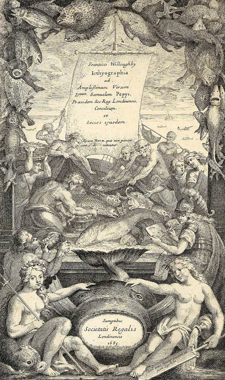 Oxford, 1686 title page, by the French printmaker Paul van Somer, working in London. Title page and illustrations were published in London; text was printed in Oxford. The page illustrates a history of fish by the English naturalist Francis Willoughby. Samuel Pepys, secretary of the admiralty and diarist, is featured on the inscription.